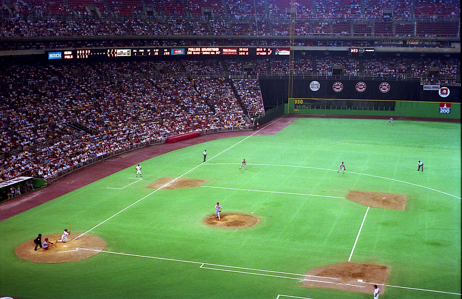 Mike Schmidt hits home run off of Cincinnati Reds pitcher Ron Robinson in the 5th inning at Veterans Stadium on July 20, 1987.